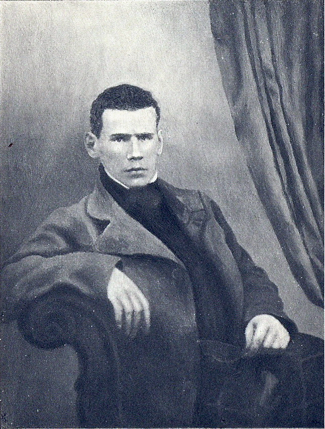 Daguerreotype portrait of Leo Tolstoy, taken in 1848